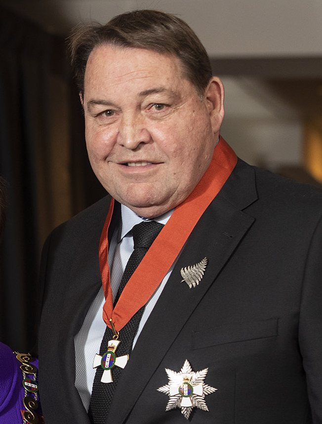 Steve Hansen, after his investiture as KNZM, for services to rugby, at Rydges Latimer Hotel, Christchurch, on 3 August 2020.